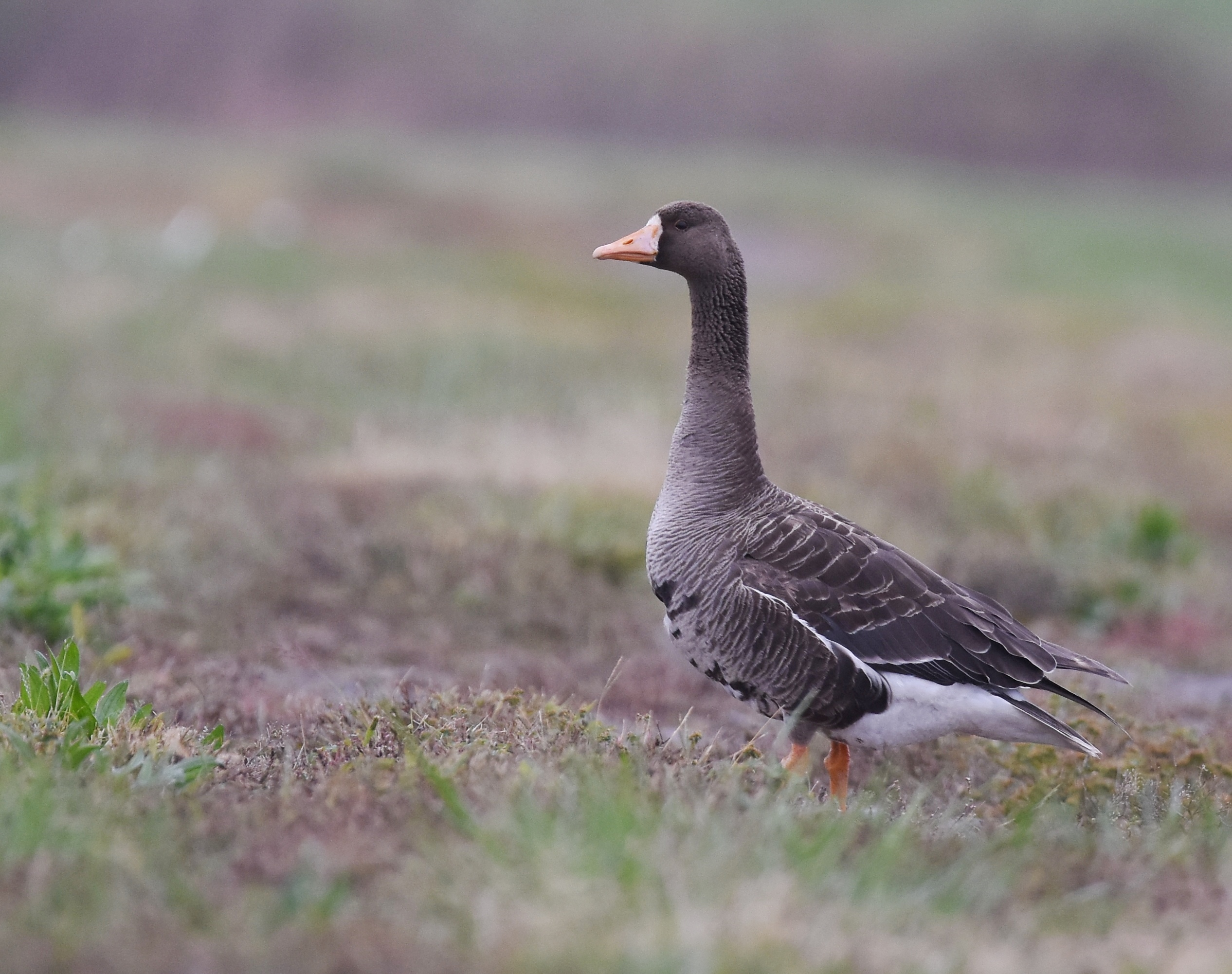 A Day At Riverlands: Greater White-fronted Goose